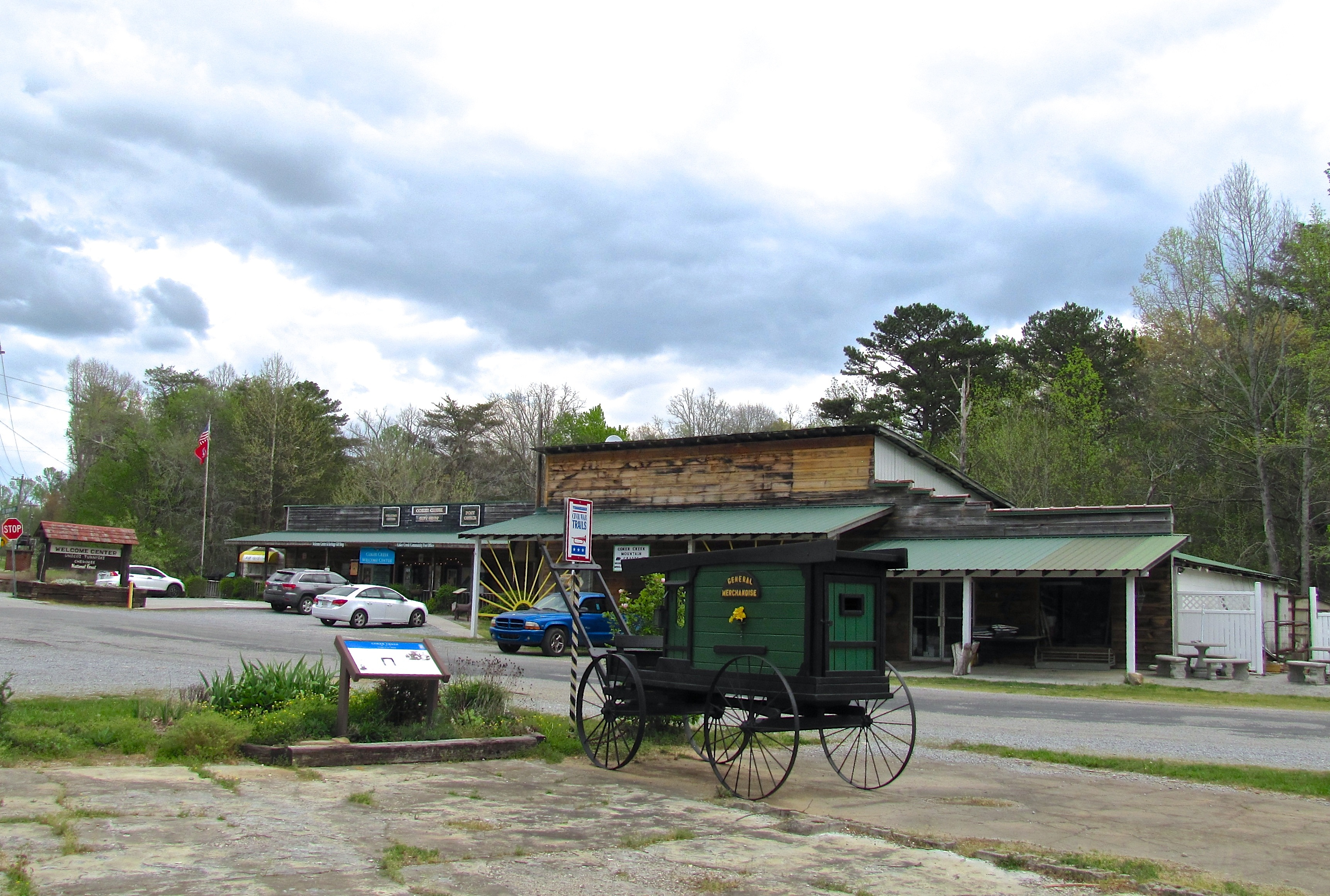 Shops in Coker Creek, Tennessee, United States, with carriage in the foreground. State Route 40 (Unicoi Turnpike) crosses the photo.